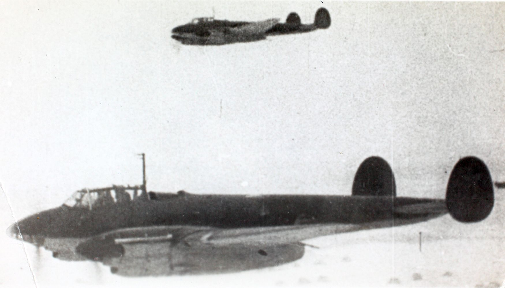 Catalog #: 15_002211 Title: Petlyakov Pe-2 Peshka (Pawn) Date: 1940 Collection: Charles M. Daniels Collection Photo Album Name: Soviet Aircraft Page #: 4 Tags: Soviet Aircraft, Charles Daniels, PUBLIC COMMONS.SOURCE INSTITUTION: San Diego Air and Space Museum Archive